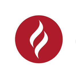 Claremont Graduate University logo